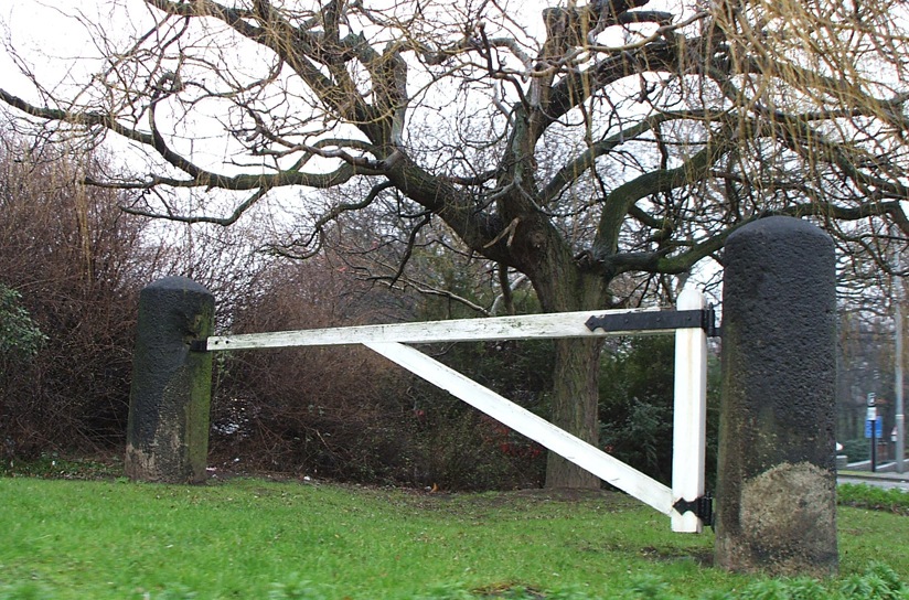 The gate at Hunter's Bar, Sheffield. (More images)